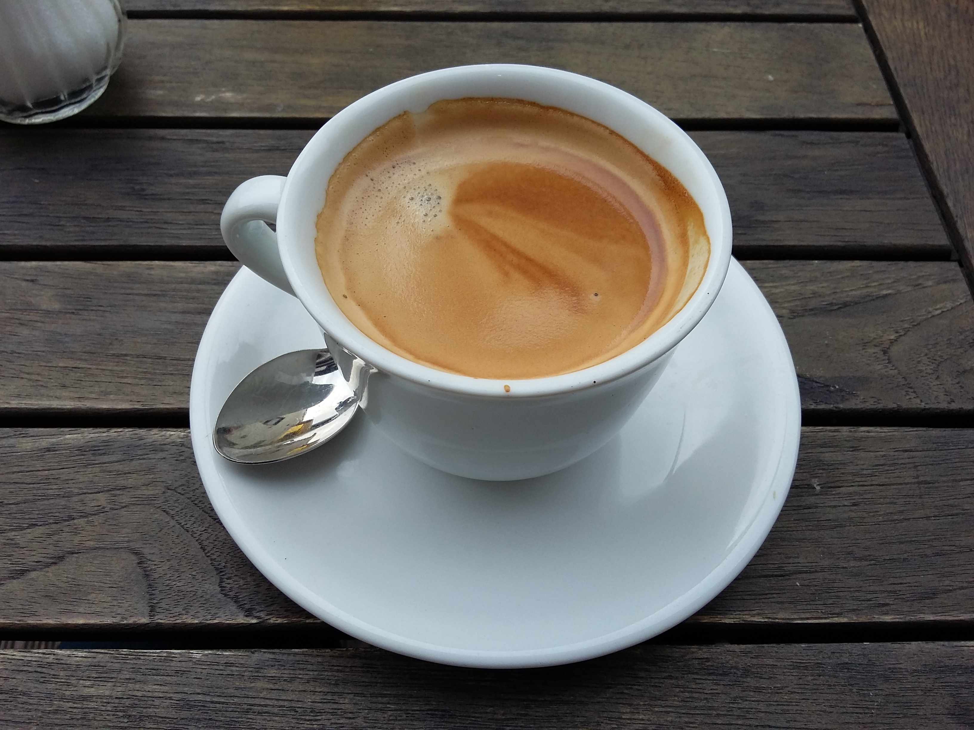 A cup of coffee